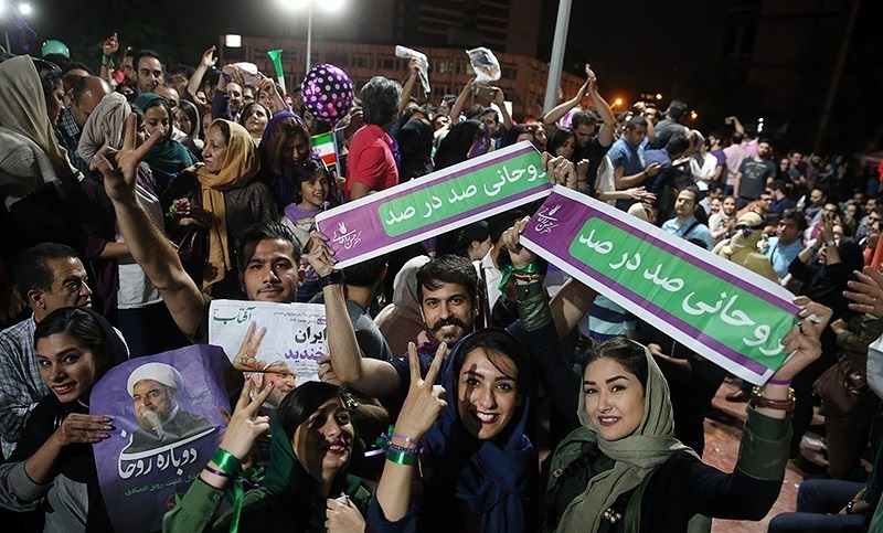 Hassan Rouhani's election celebrations